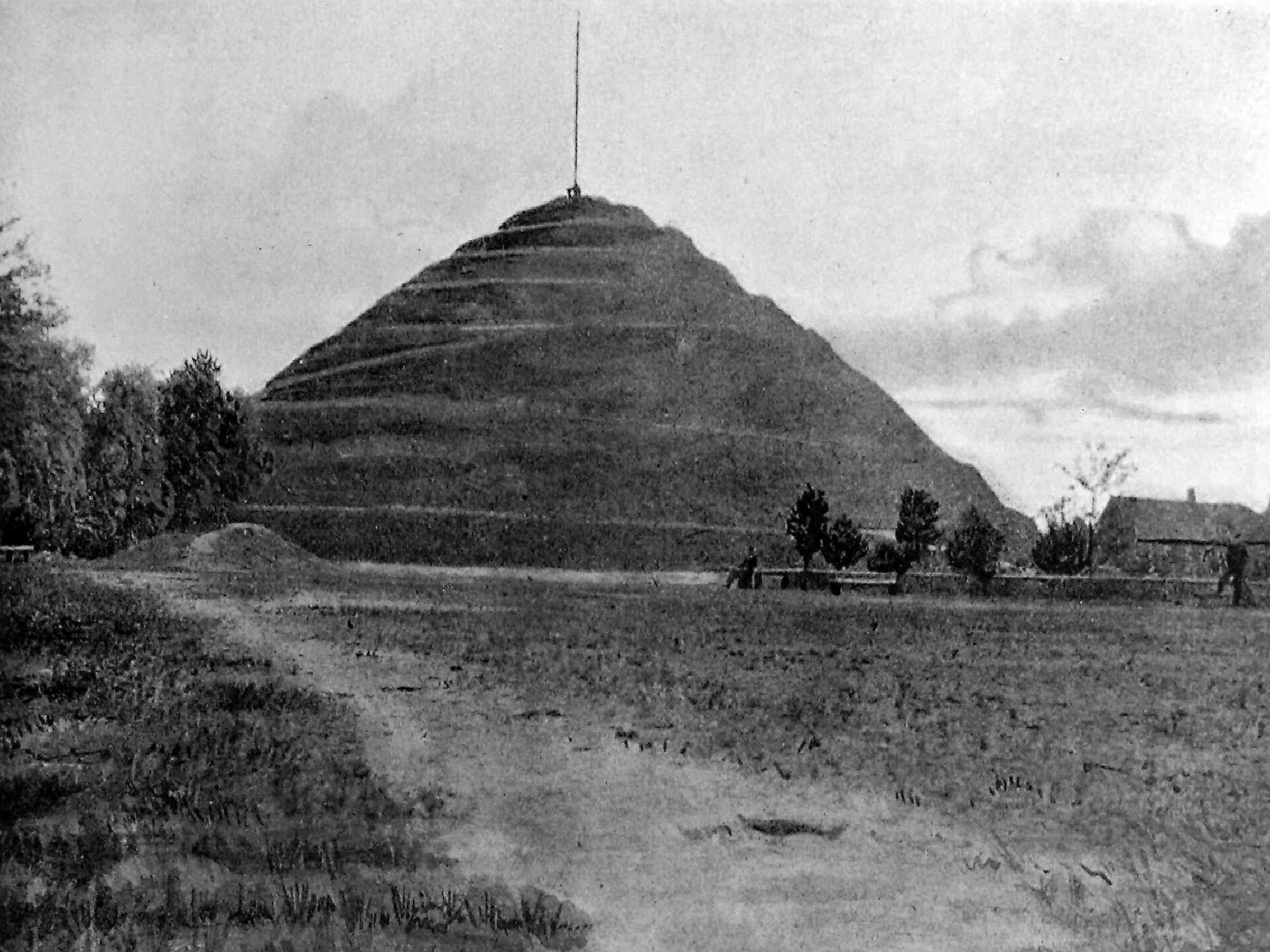 Lviv - Lubelska Union Mound